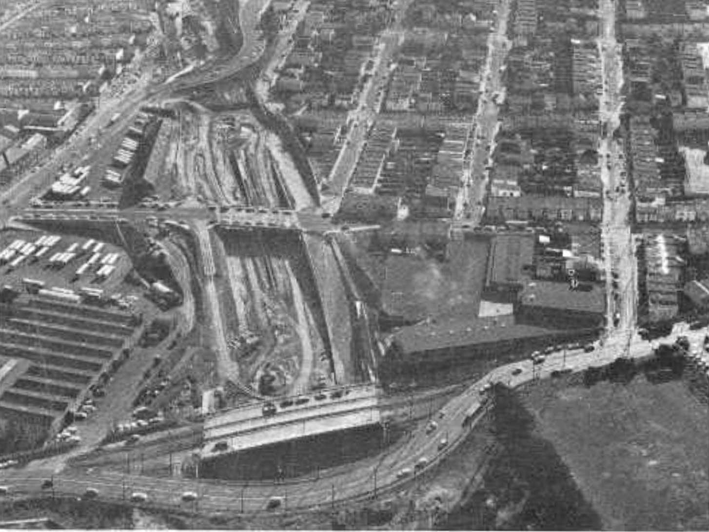 Construction of the Southern Freeway through the Balboa Park area in 1964. Ocean Avenue (with a temporary bypass for vehicles and streetcars) is in the foreground, with Geneva Avenue behind. Muni's Elkton Shops, Ocean Bus Yard, and Geneva Yard are at left.